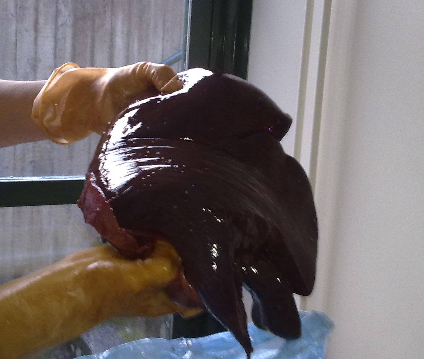 Liver from moose.